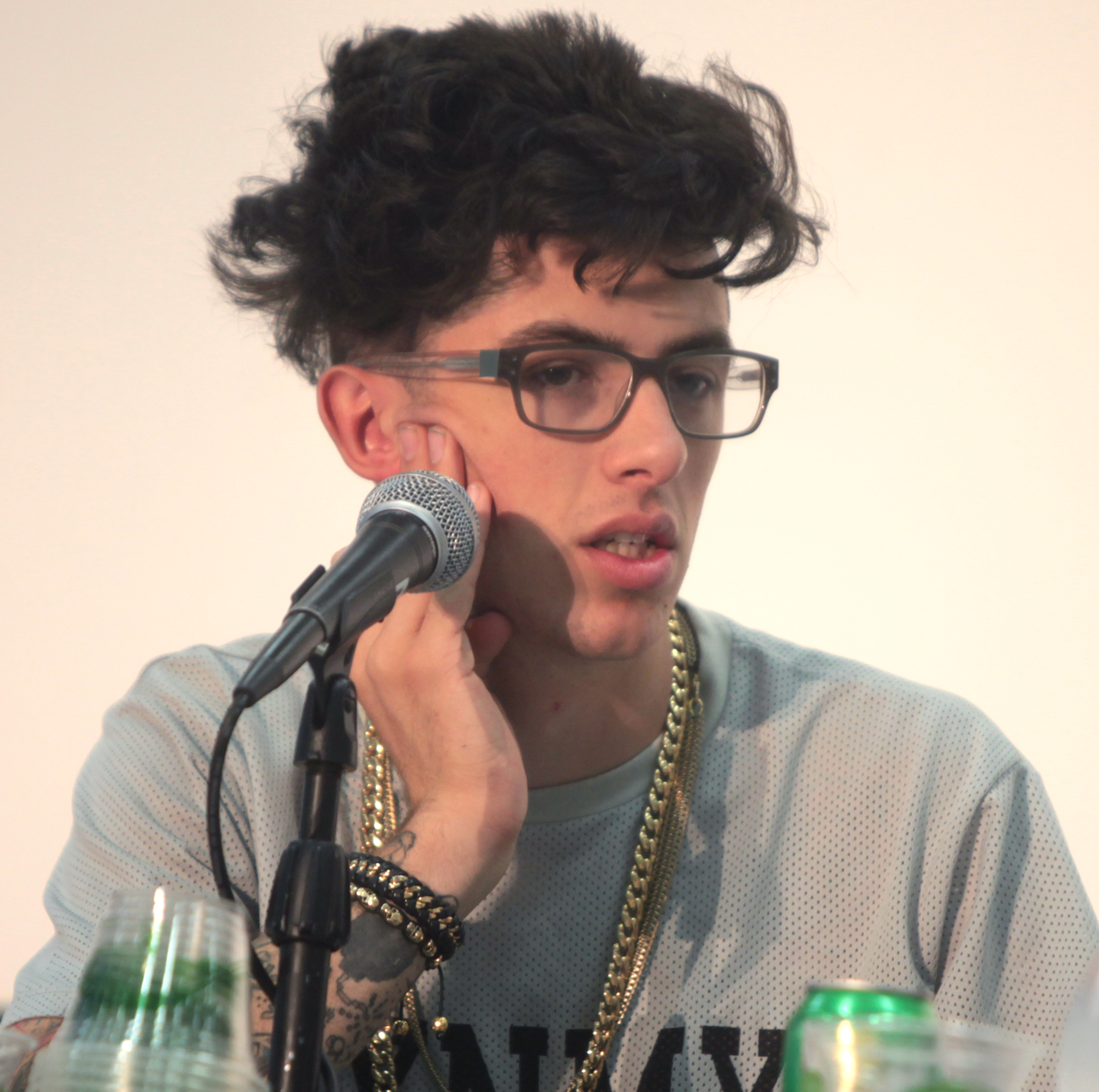 Sam Pepper in 2014 at VidCon, Anaheim Convention Center in Anaheim, California.